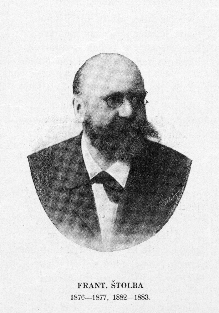 František Štolba (1839-1910) was a Czech chemist